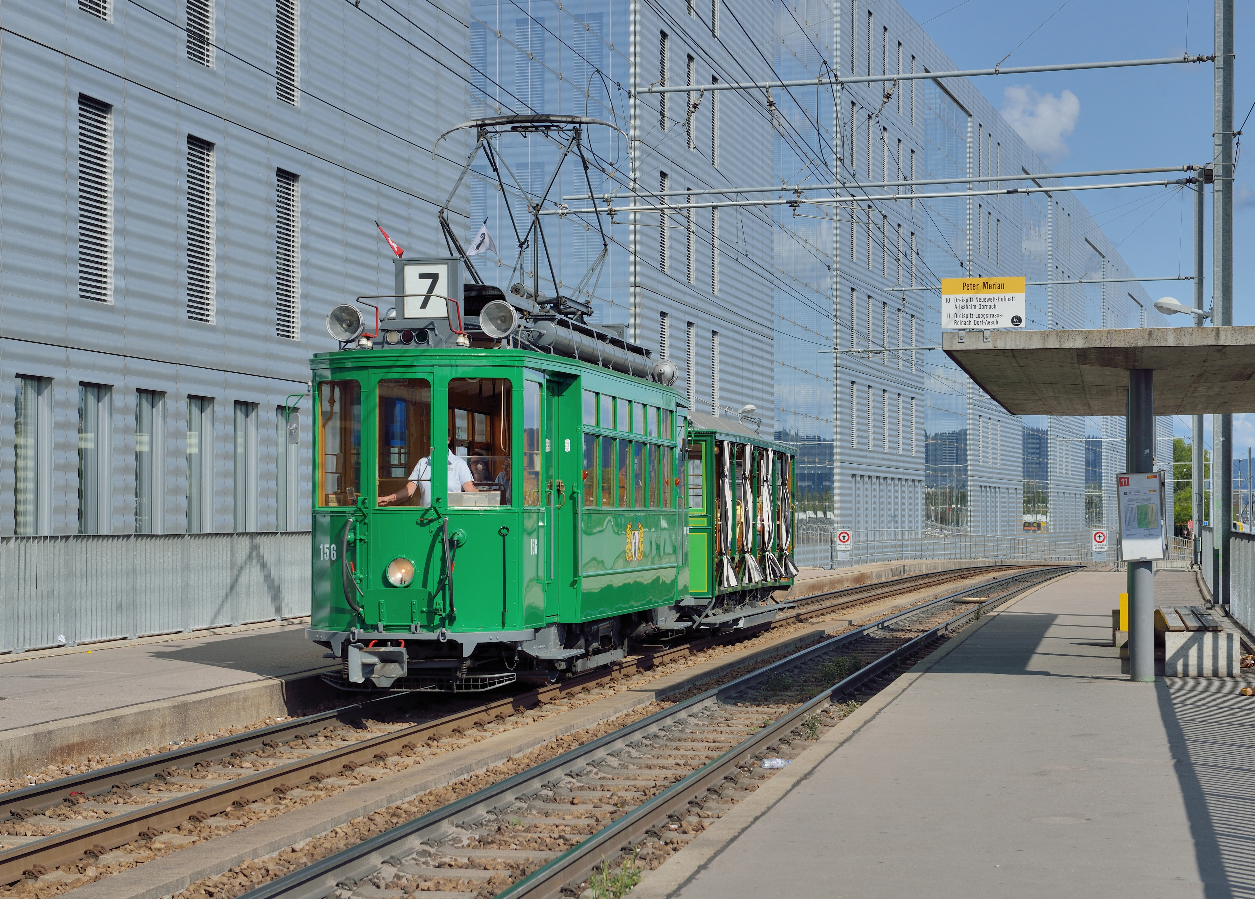 Basel: old tram